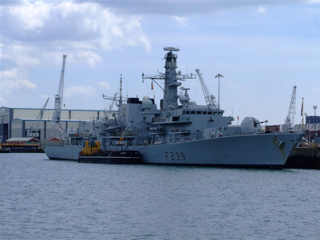 HMS Richmond, a Type 23 frigate of the Royal Navy, in Portsmouth naval base, 2008.